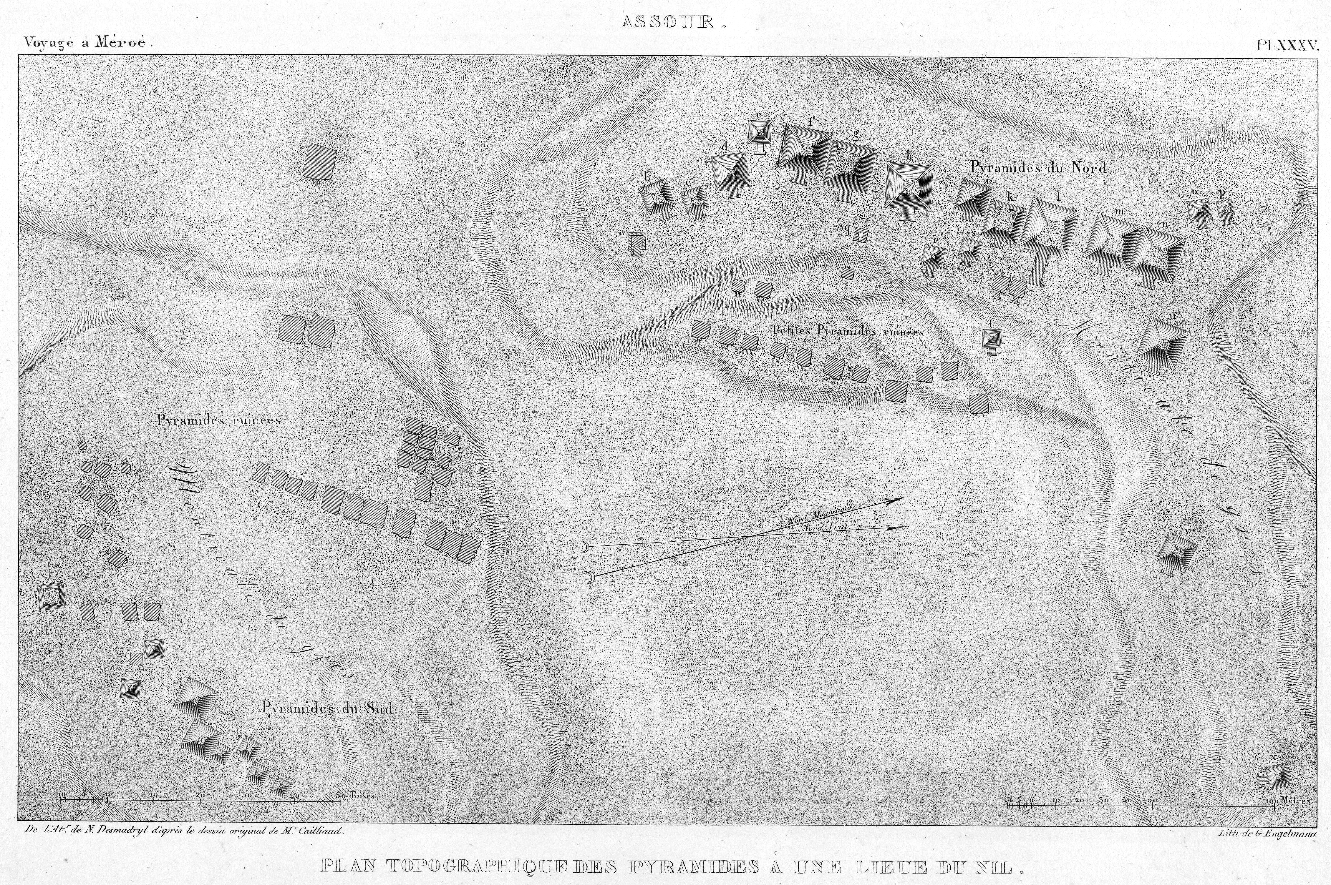 Pyramids of Meroe in 1821 (plan)